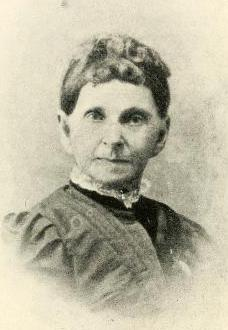 An older white woman, wearing a high lace collar with a dark dress.